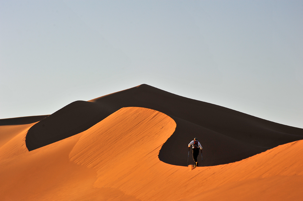 Stefano Miglietti, during the crossing of Erg Chegaga dunes, Morocco 2018